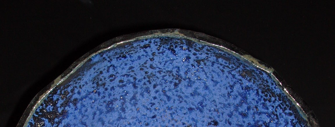 Use of glasure. Author Ivo Kruusamägi.